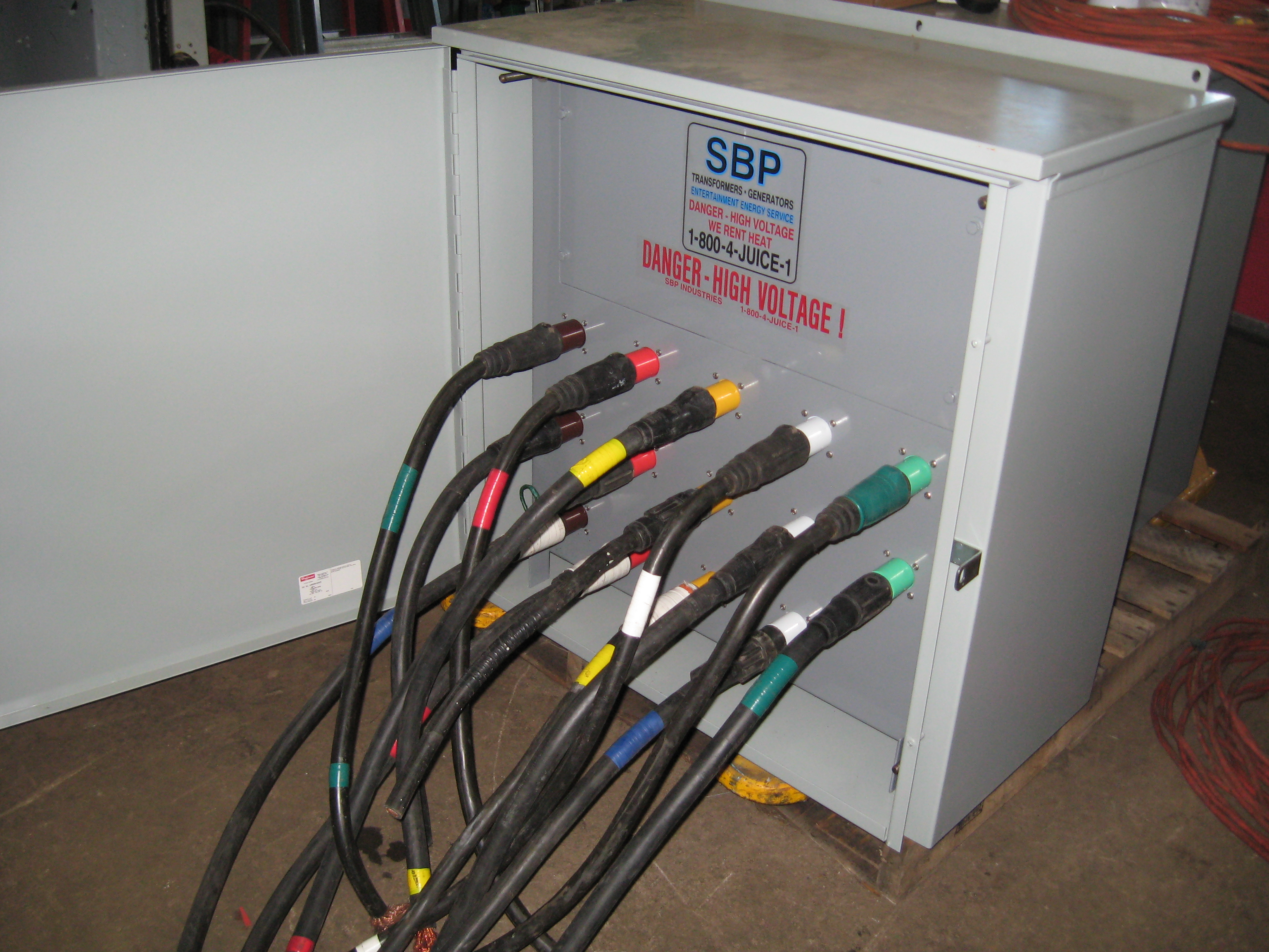 Generator tie in panel used to quickly connect a mobile generator for emergency or backup power.